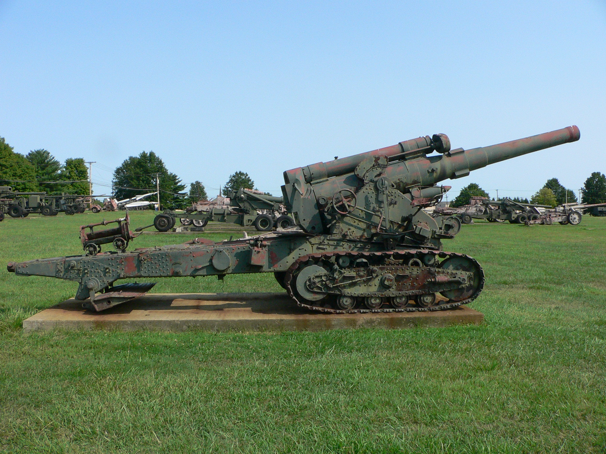 Picture taken by myself, Mark Pellegrini, at the United States Army Ordnance Museum (Aberdeen Proving Ground, MD) on August 14, 2007.